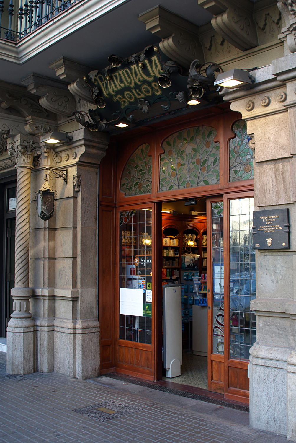 Farmàcia Bolós - Catalan Modernisme (Josep Domènech i Estapà and Antoni Falguera i Sivilla, 1904-910))